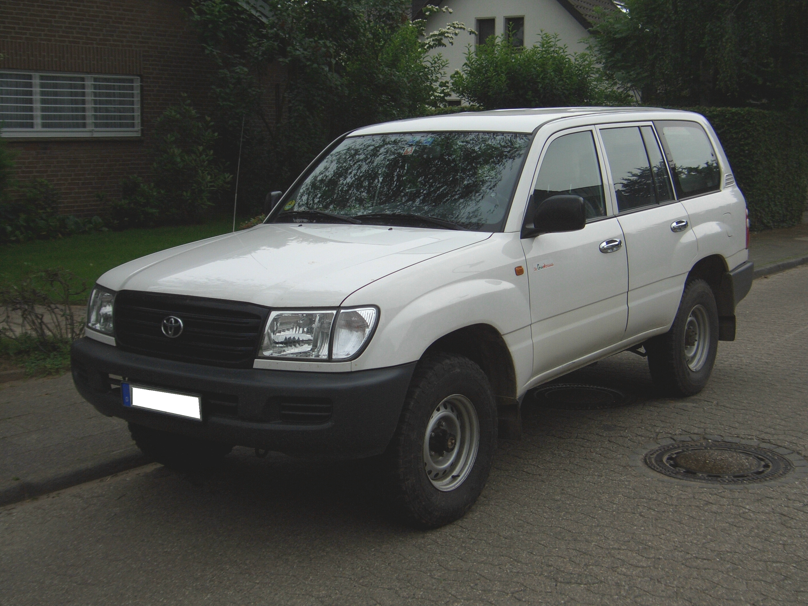 Toyota Land Cruiser HZJ 105, the heavy duty variant of the 100 series sold only to UN organisations and other Aid & Humanitarian agencies by TGS, the Gibraltar Toyota subsidiary. Service people driving the 105 on their missions are sometimes allowed to buy the car afterwards for further civilan use; this one seen in Duesseldorf, Germany.